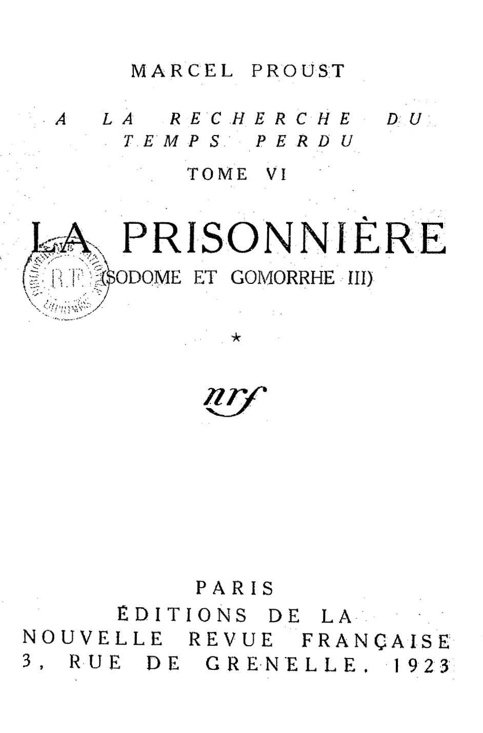 À la recherche du temps perdu Proust La Prisonniere 1923